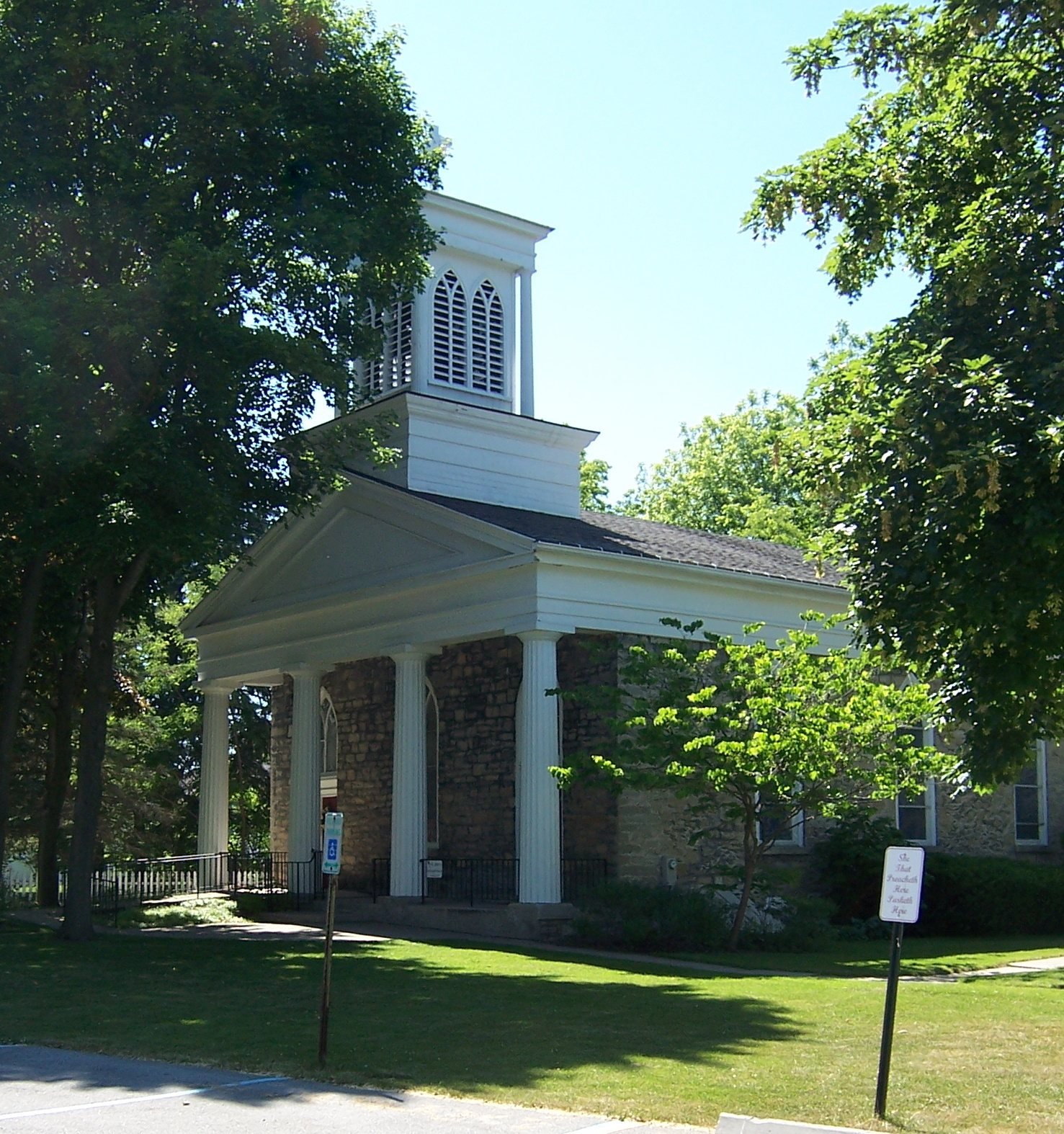 St. John's Episcopal Church in the village of Honeoye Falls in Monroe County, New York. It was built in 1841–42; the bell tower was added in 1855. It is listed on the National Register of Historic Places.